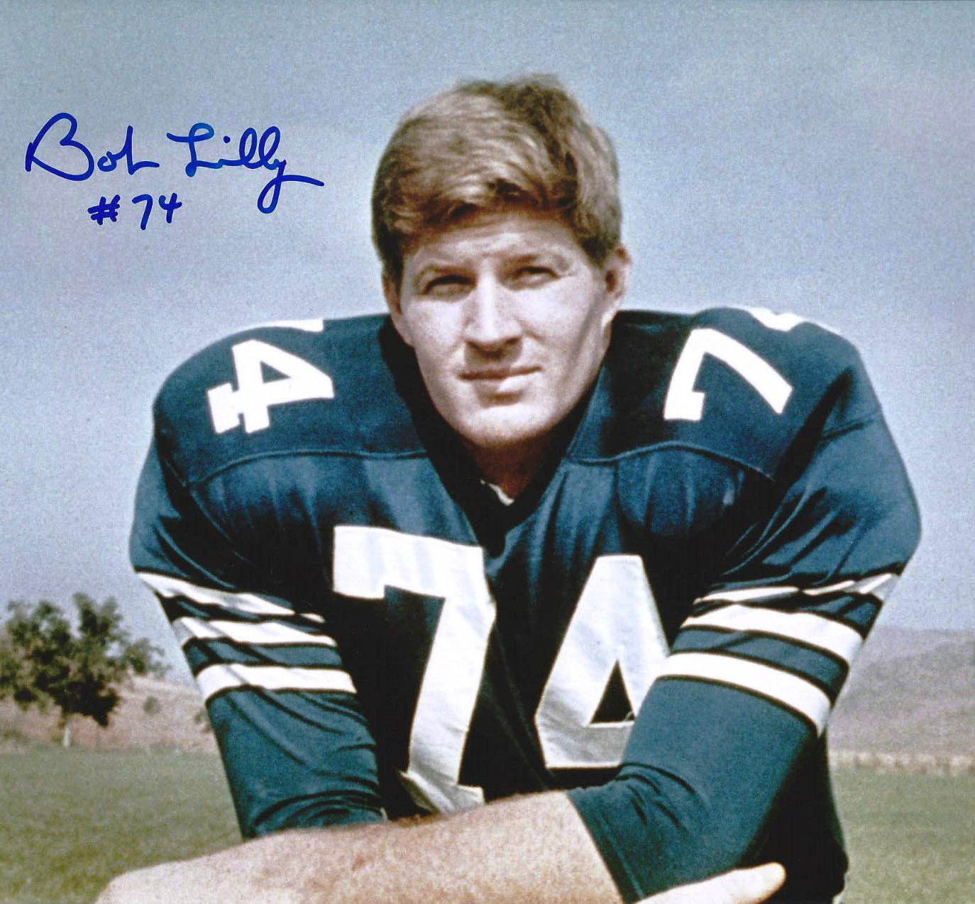 Autographed photo of Bob Lilly, an american football player during his tenure with the Dallas Cowboys.